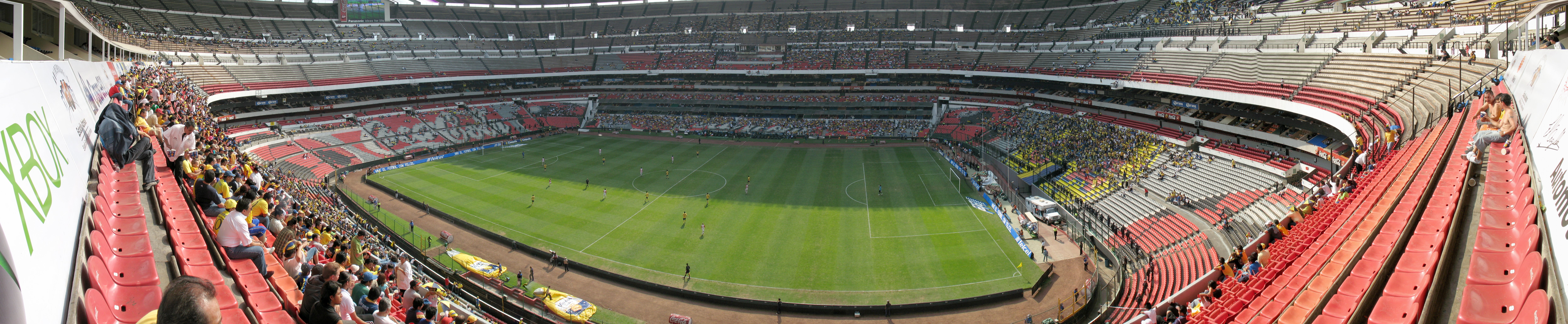 Panoramic view Estadio Azteca, Mexico City. Football game Club America (Mexico D.F.) vs Tecos (Guadalajara), Clausura 2007